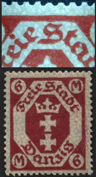 Danzig 1922 6m stamp with gray network magnified.